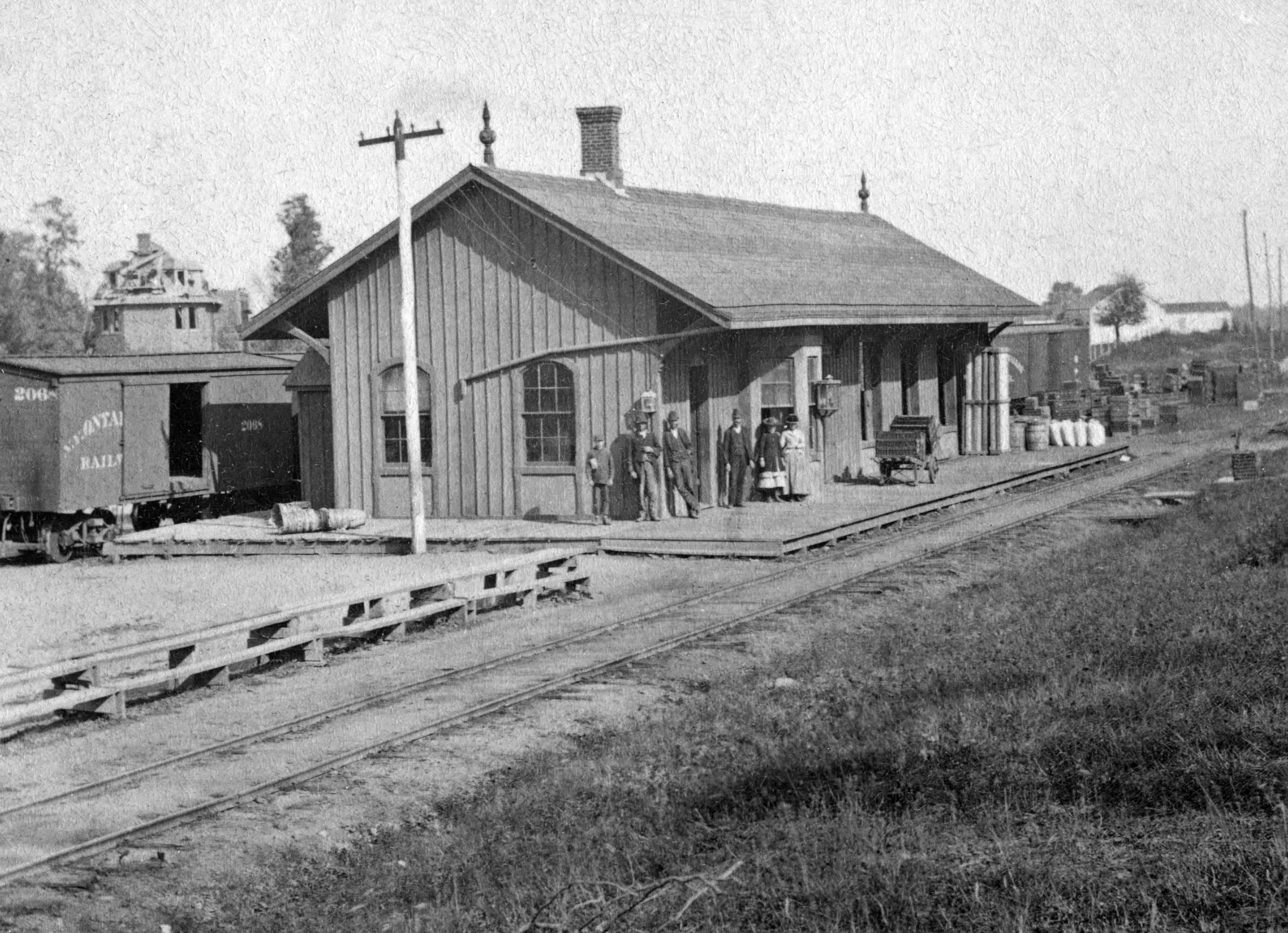 Scan of a 5.25 x 3.5 stereoscope of the original railroad station in New Paltz, New York. The New Paltz Normal School, which burned down in 1906, is visible behind the station. The station pictured has a gabled roof; after it was rebuilt following a 1907 fire, the roof was hipped. (Edited from original)